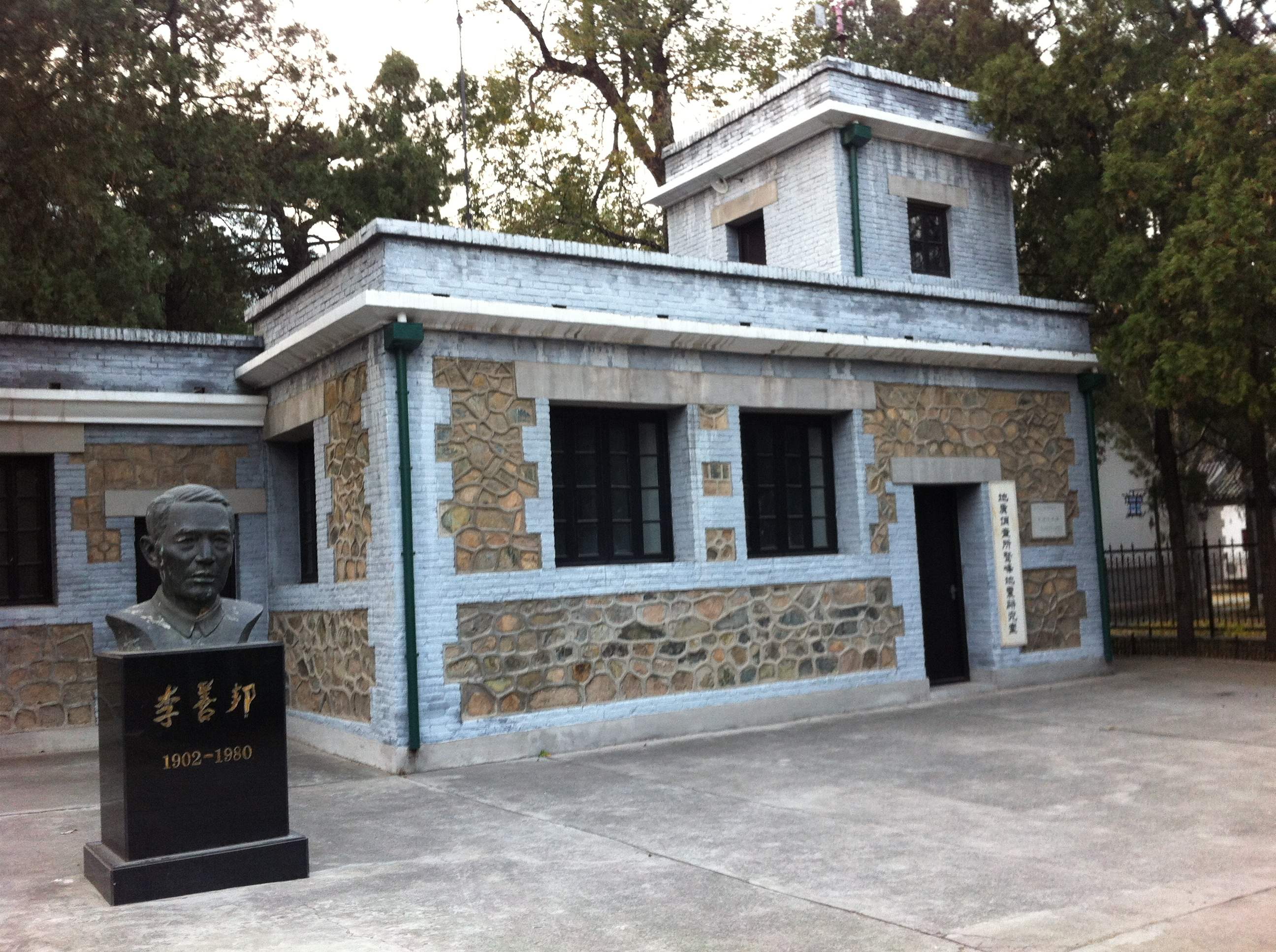 Built in 1930, it was the first seismic station built independently by the Chinese people.